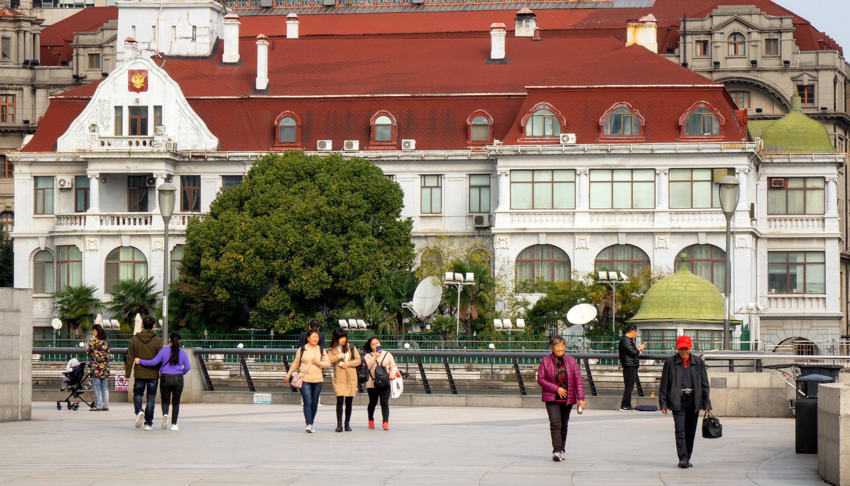 The Russian Consulate, located on the Bund in Shanghai, at 20 Huangpu Rd, Hongkou Qu